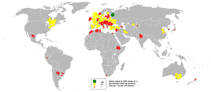 This bubble map shows the global distribution of barley output in 2005 as a percentage of the top producer (Russia - 15,791,370 tonnes). This map is consistent with incomplete set of data too as long as the top producer is known. It resolves the accessibility issues faced by colour-coded maps that may not be properly rendered in old computer screens. Data was extracted on 9th June 2007 from Based on Image:BlankMap-World.png